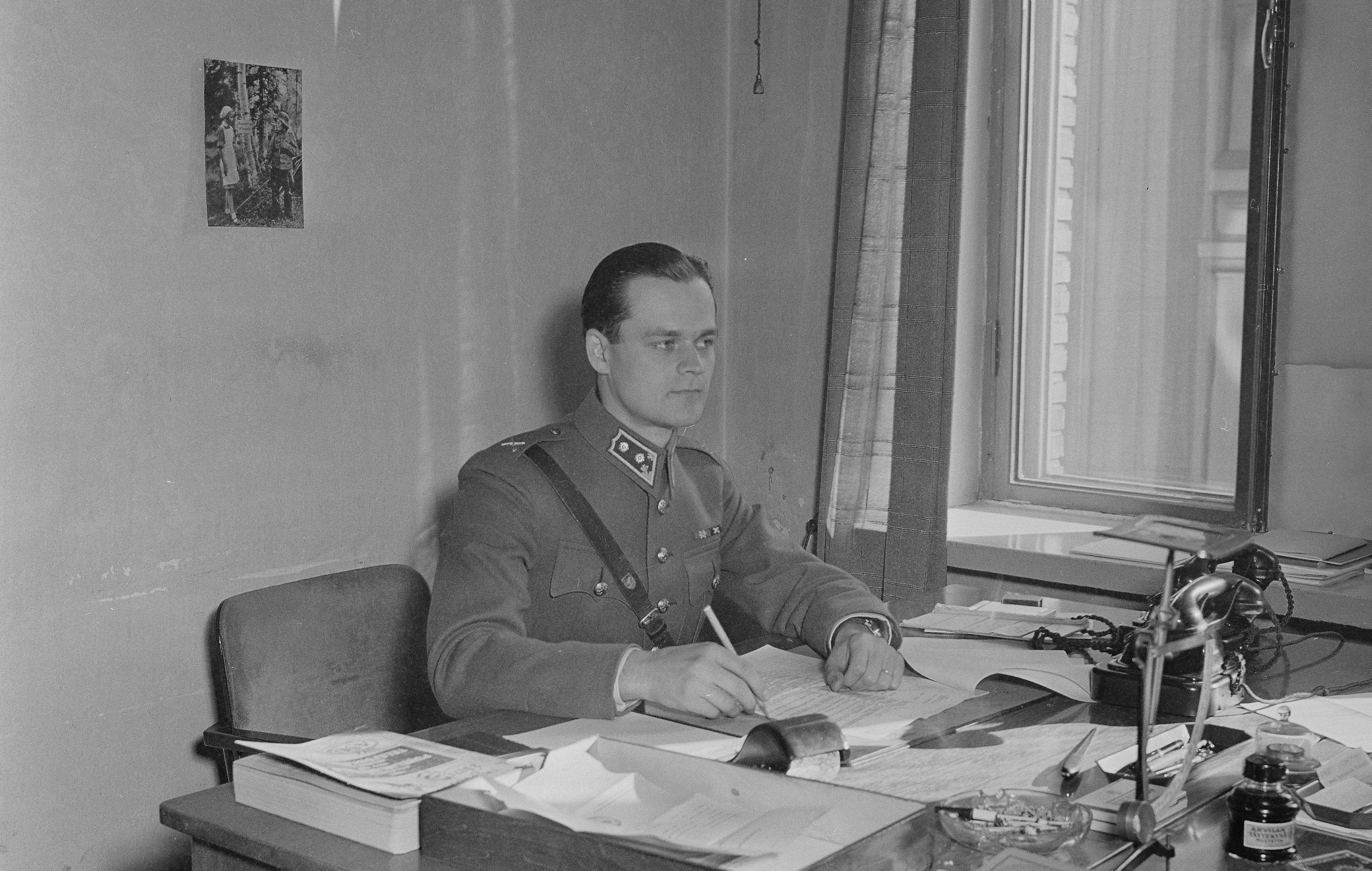 Photograph of the Finnish advertiser Per Taucher (1915–2006) working as comendant at the Government Information Office (Valtion tiedoituslaitos) during World War II.